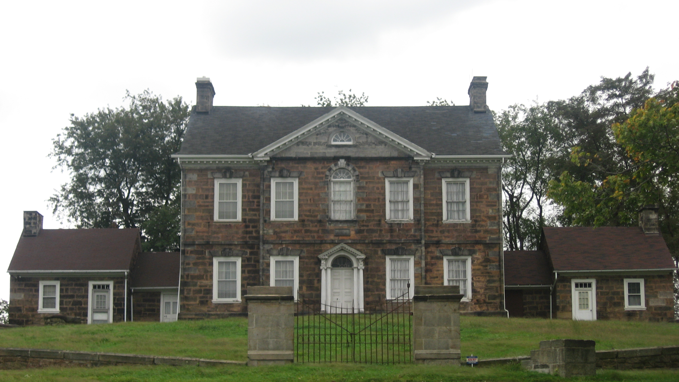 Front of the Isaac Meason House, located off U.S. Route 119 at Mount Braddock northeast of Uniontown in Dunbar Township, Fayette County, Pennsylvania, United States. Built in 1802 and one of the best American examples of Palladian architecture away from the Atlantic coast, it was the first house west of the Appalachians to be designed by an architect. It was designated a National Historic Landmark in 1971.